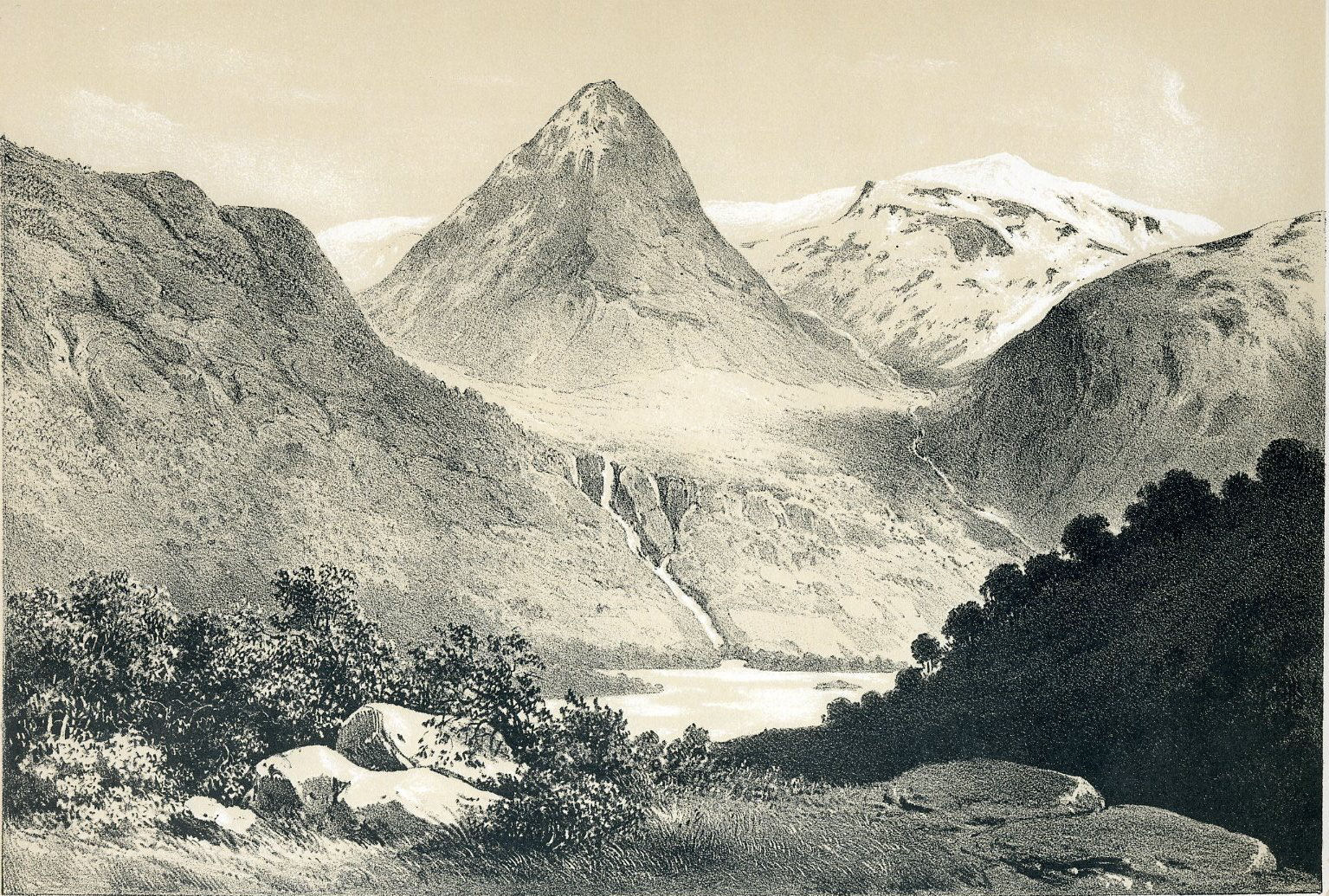 Picture from the Work "Norge fremstillet i Tegninger" 1848 by Chr. Tønsberg. Myrhorn mountain, in Jostedalen, Sogn og fjordane county, Norway. The glacier in the background is Spørteggbreen.